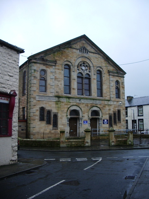 Old Methodist Chapel on Angle Street, Burnley. Now a mosque